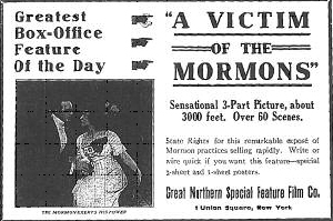 Ad appearing in The Moving Picture World trade paper (10 February 1912)